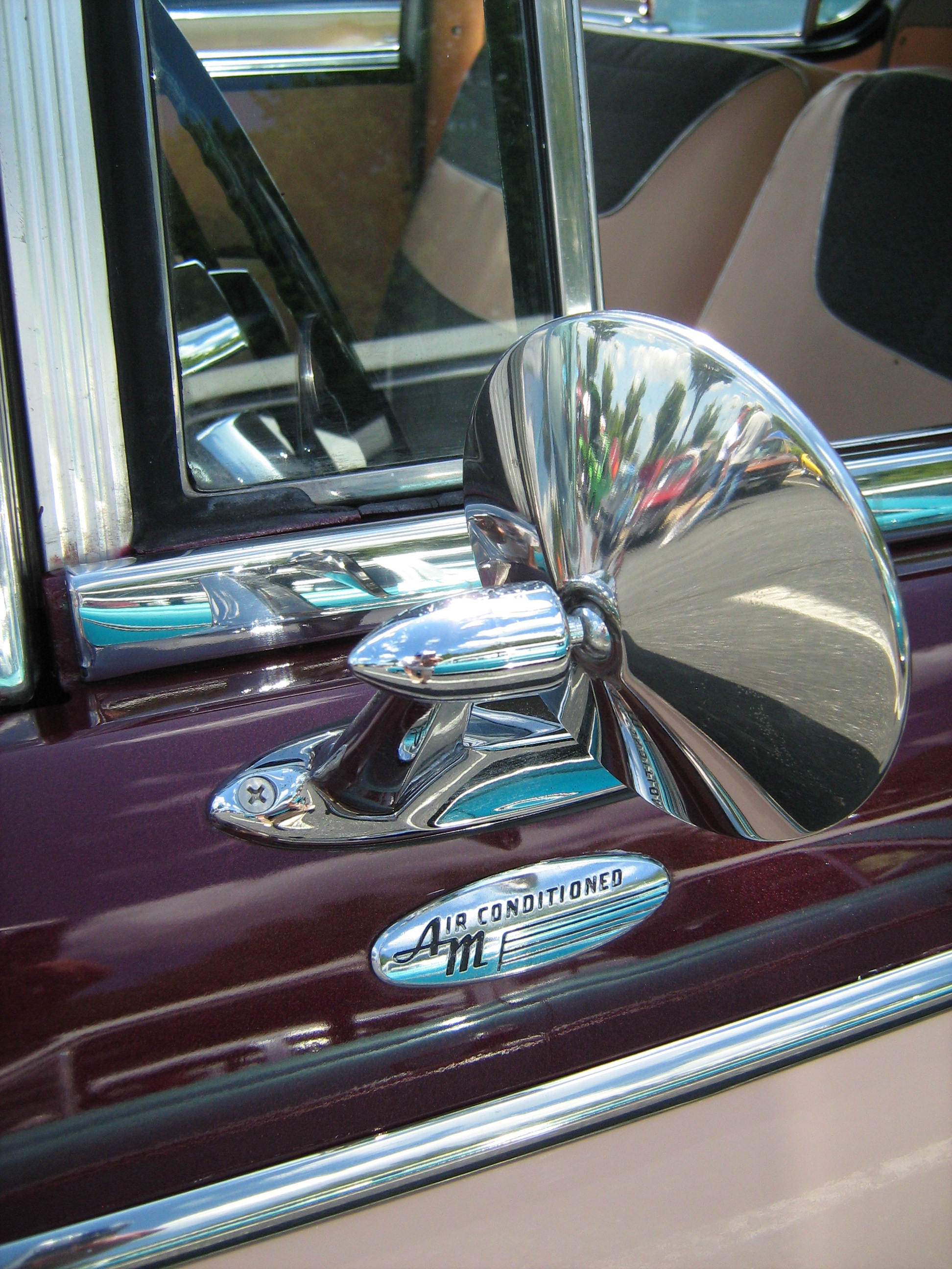 Detail of the front door with rear view exterior mirror and the AM air conditioning emblem indicating the factory "air" option in this 1957 Rambler built by American Motors Corporation (AMC). This is a "Cross-Country" station wagon body design in the Custom "trim" model. Factory correct tri-tone exterior paint and interior trim. Six cylinder with Hydramatic automatic transmission. Factory equipped with the "Weather Eye" heating and air conditioning system. Standard roof rack and correct AMC accessories. Picture was taken at the "2011 Potomac Ramblers Club" meeting in Maryland.